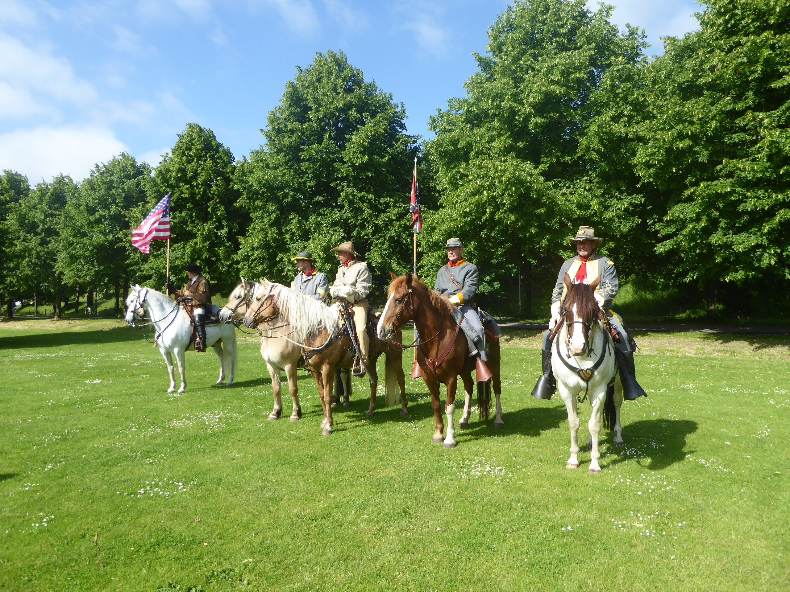 The Danish Civil war reenactment group American Civil War Reenactors of Denmark at Krigshistorisk Festival (War Historical Festival) in Rødovre in Copenhagen.